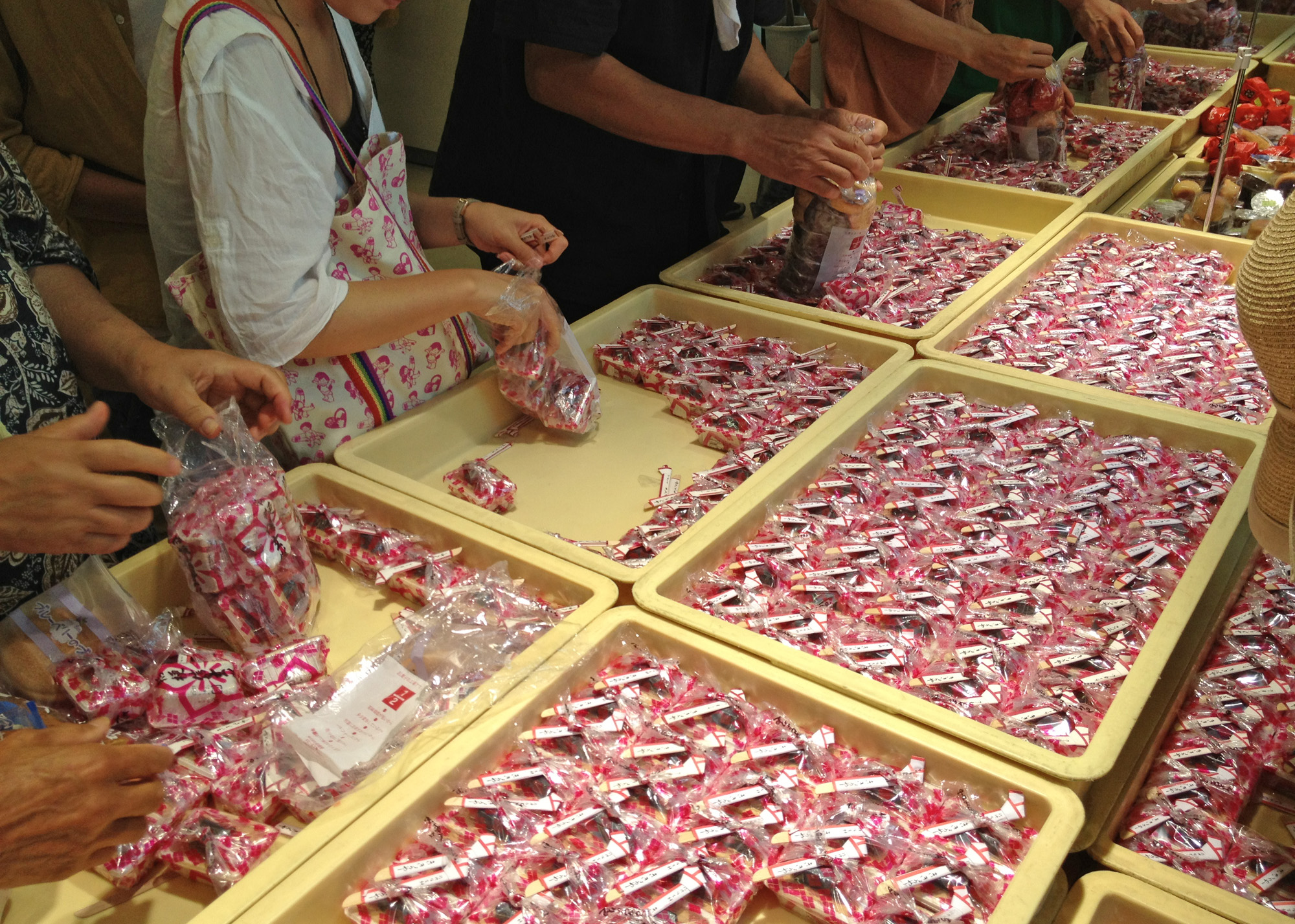 Outlet mall of KIKYOUYA Co. Ltd., Fuefuki City, Yamanashi Pref., Japan.